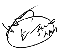 Hani Signature.